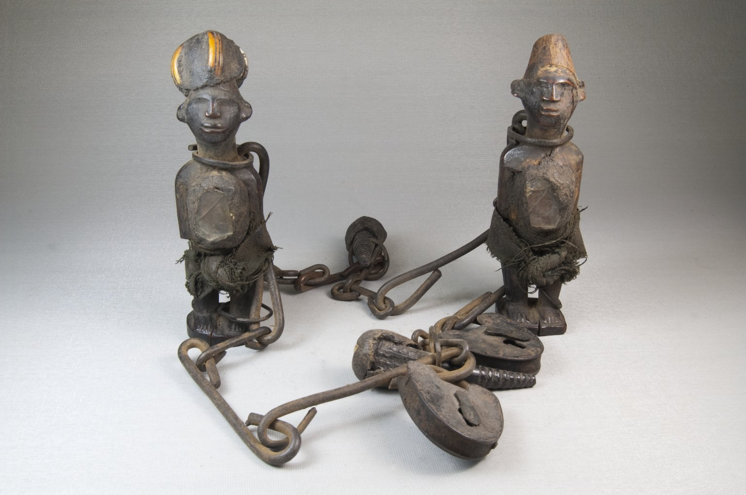 Two standing wooden figures, heads and bodies bearing medicine, attached to heavy-linked iron chain, probably from large power figure. Each figure has woven cloth wrapped around lower torso beneath medicine pack covered with glass mirror. Chain hung with padlocks, keys, duiker horns (medicine filled), bird beaks (articulated), etc. Condition: Mirrors broken, body cracked.